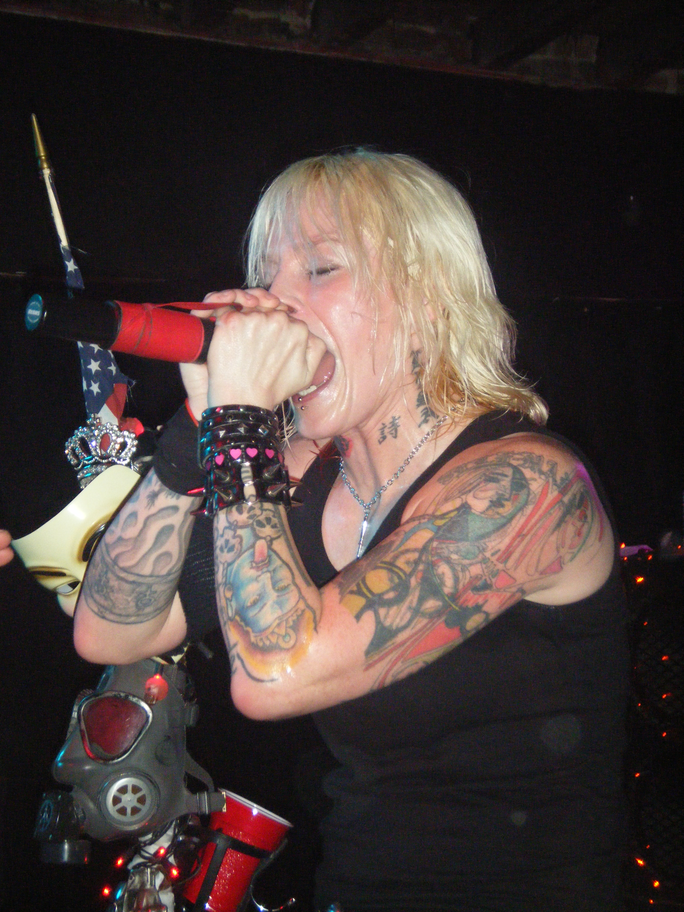 Otep performing "Rise Rebel Resist" in Denver, Colorado. February 17th, 2010.